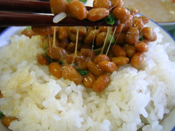 Natto on rice.